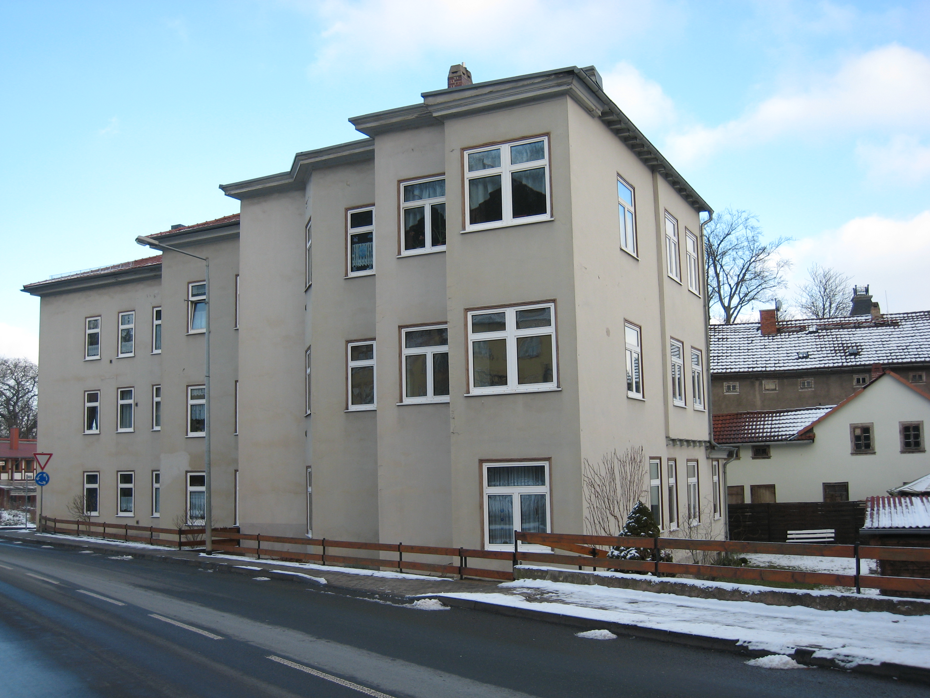 Lohmühlenweg 1, Arnstadt